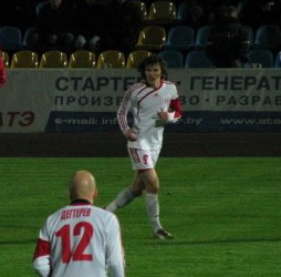 Alyaksandr Yatskevich FC Naftan Novopoltsk